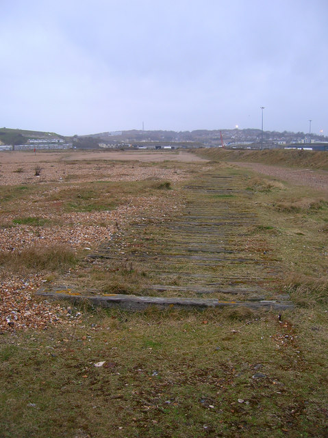 Site of RNAS Newhaven The wooden sleepers in the foreground would have once had Stroudley railway carriages perched on top of them and used as admin offices for the staff of RNAS Newhaven. When the base closed the carriages were used as holiday homes until they were removed for defence reasons in 1939. The concrete hardstanding beyond marks the site of the former hangars. The seaplane base was built on the shingle banks to the east of the River Ouse.